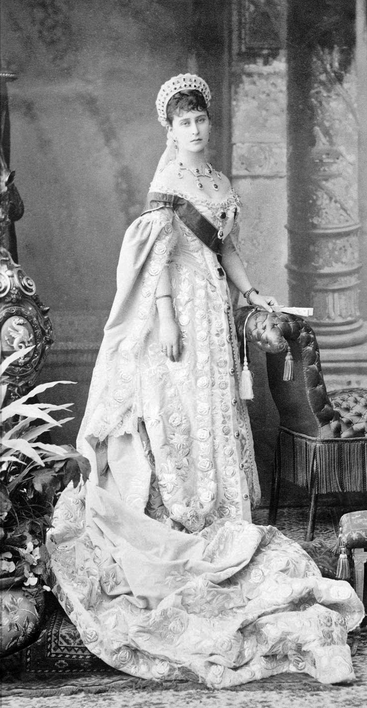 Grand Duchess Elizaveta Fedorovna (Elisabeth of Hesse-Darmstadt)